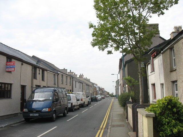 View West Along Deiniolen's Stryd Fawr (High Street)